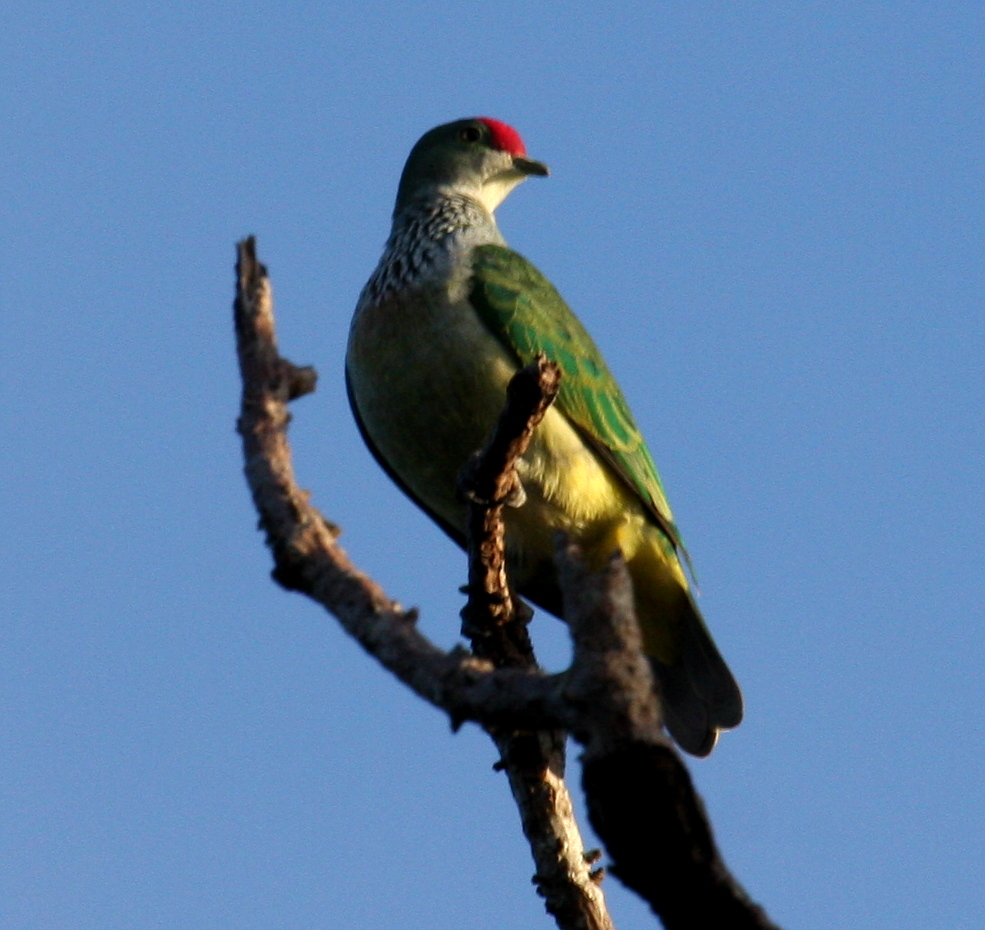 Many-coloured Fruit-dove (Ptilinopus perousii) Female, Bobby's Farm, Vuna, Taveuni, Fiji Isles